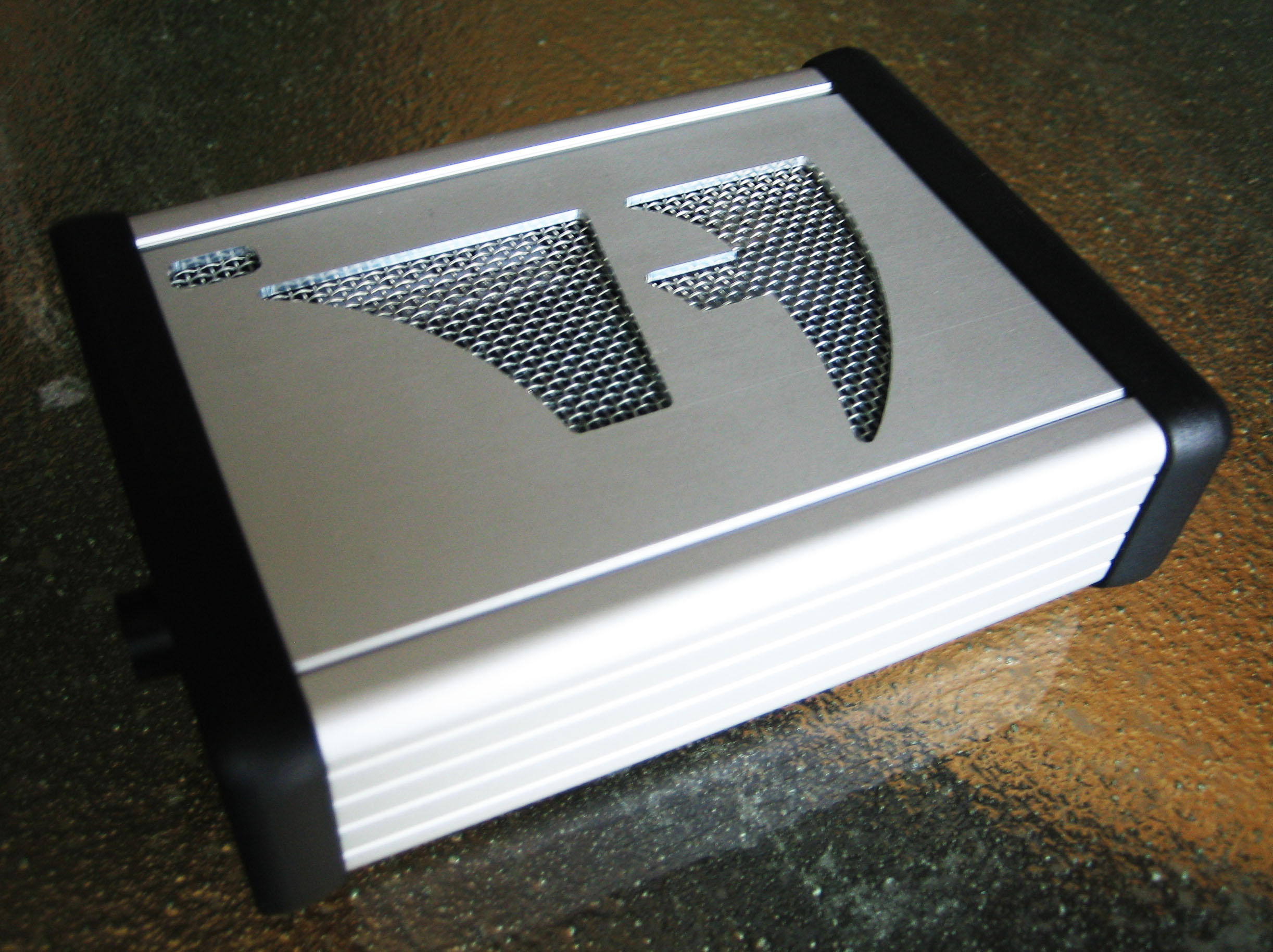 The HardSID UPlay (2010) USB-device produced by Hard Software in Hungary, capable of playing Commodore 64-music with the containing 2 SID-chips. Photo by the uploader.